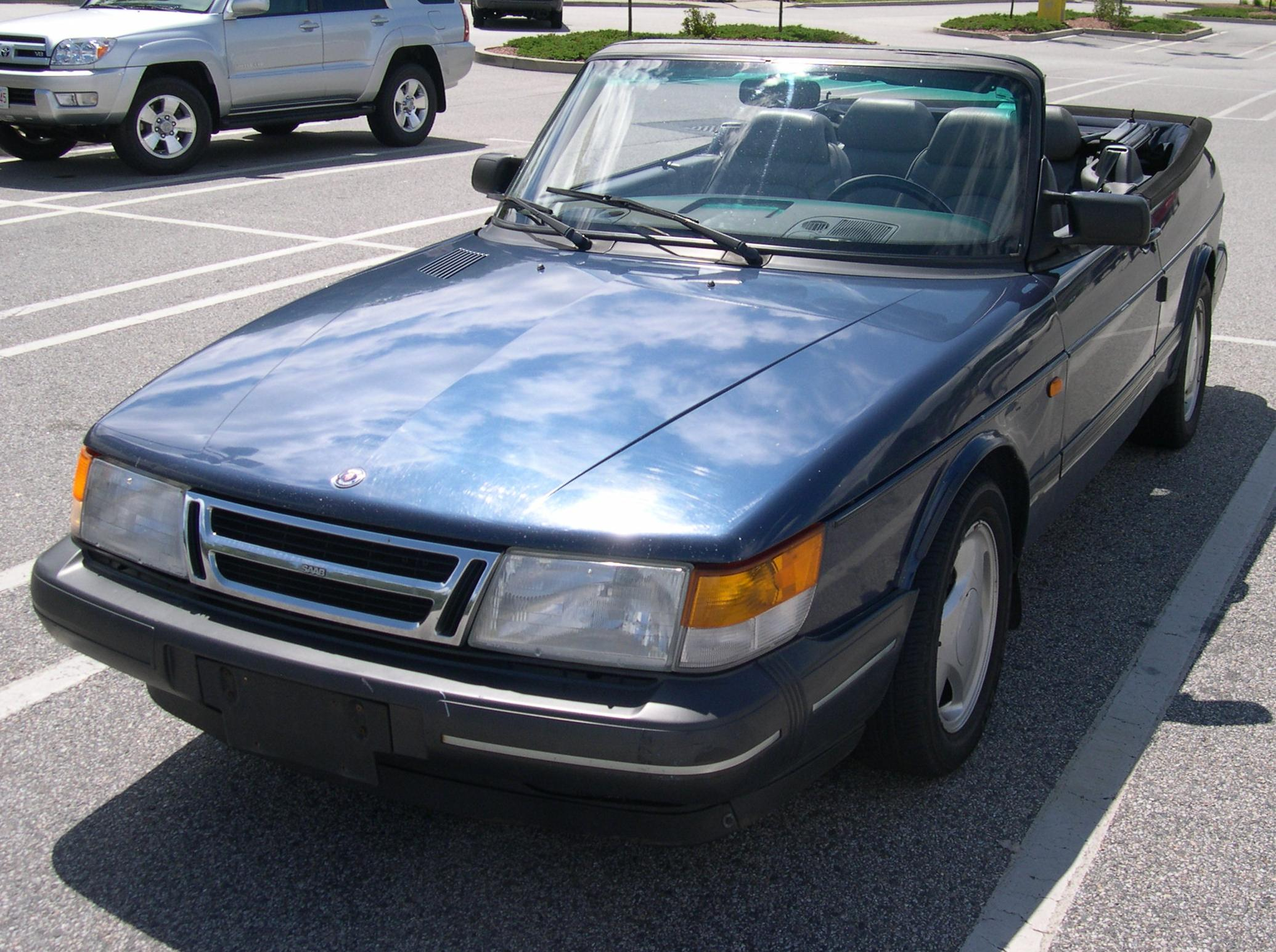 1993 Saab 900T convertible Photo by User:Sfoskett